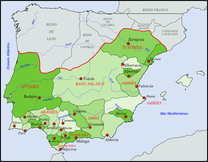 Taifa Kingdoms circa 1037.